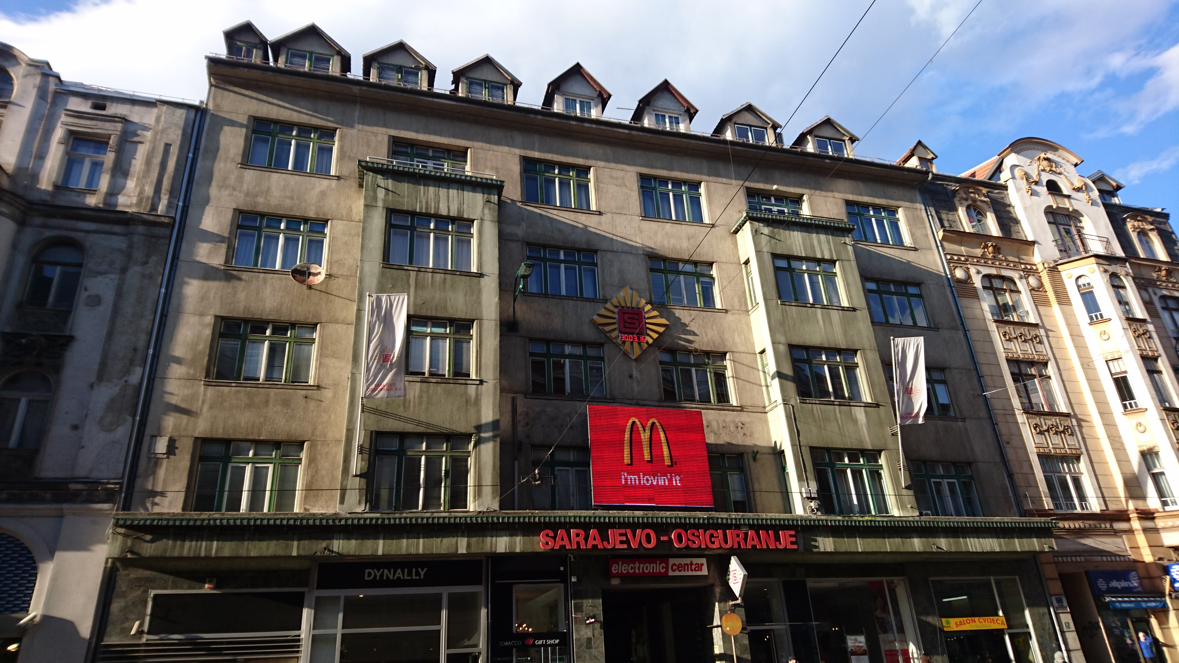 The head office of the Sarajevo osiguranje health insurance in Sarajevo